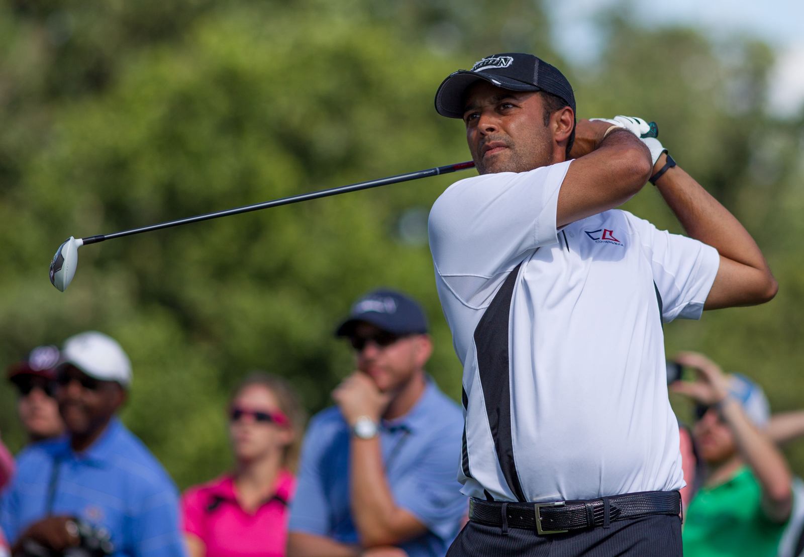 AT&T National Practice Round June 26, 2012Arjun Atwal